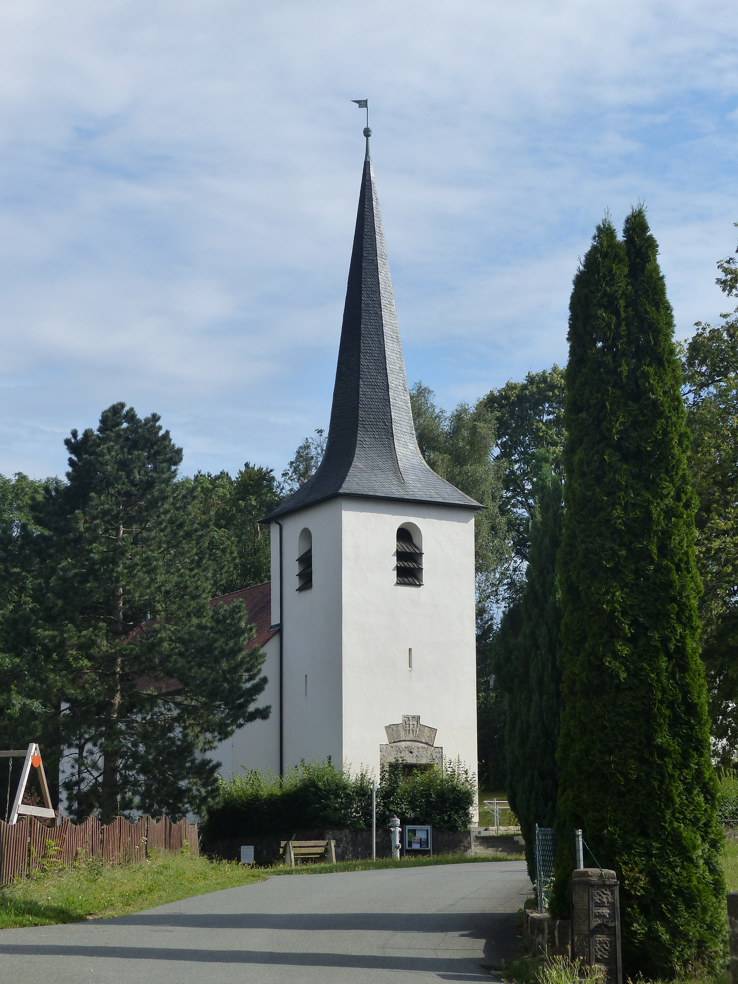 The church of the village Bieberbach, a district of the municipality of Egloffstein.